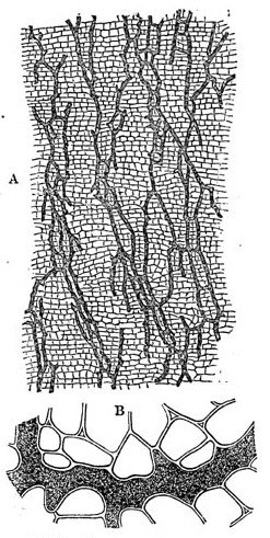 image of lactiferous conducts in Scrozonera taken from Meyers encyclopedia 1885